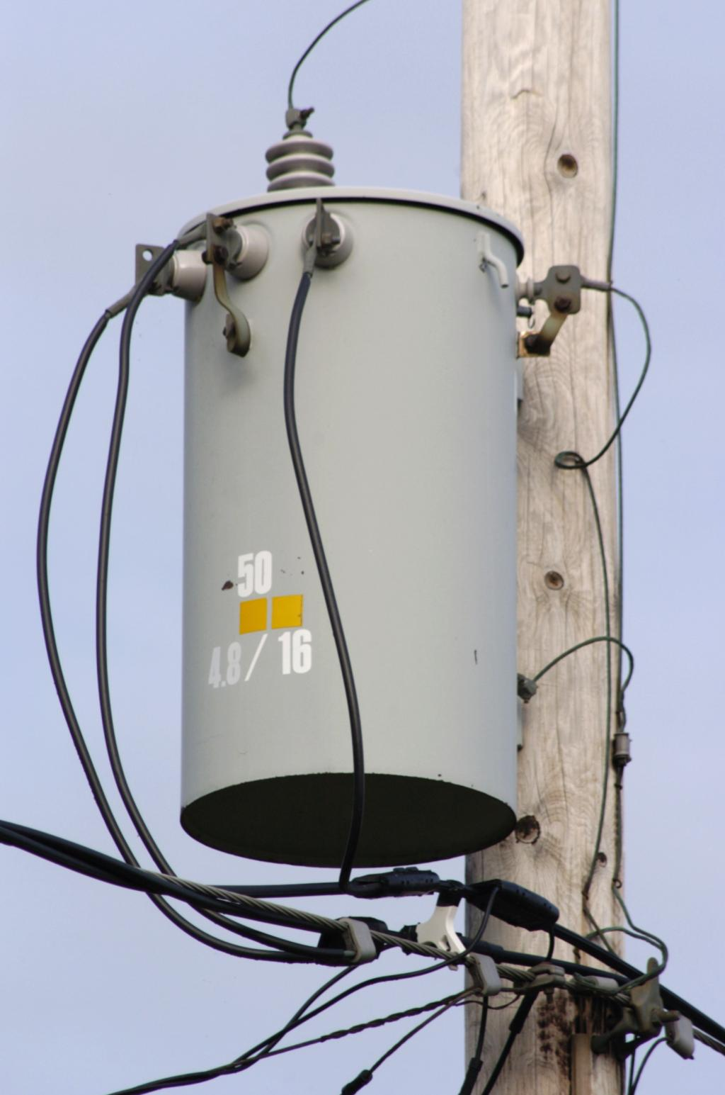 Closeup of single-phase polemount transformer. – This is a picture I took of the singlephase polemount transformer supplying my parents' cottage on Old Lakeshore Road, about 12 miles from Dunville Ontario. The transformer supplies their 200A electric service, as well as the electric services of various other cottages along that road. This image (Nikon D2h with wearable computer system), has been downcompressed to get it within the 100k suggested filesize limit of Wikipedia. Fullsize images (this and others like it) can be found linked from